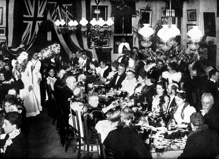 The luau or banquet at ʻĀinahau for the U.S. Annexation Commissioners, hosted by Princess Kaiulani who is looking towards camera on the left side of the photo. Published in the Leslie's Weekly October 20, 1898, P. 308.